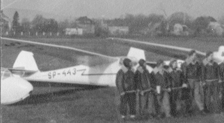 Photography probably shows a muster of sail-plane school at sail-plane airport at Jeżów Sudecki (Poland), in November 1950. Sail-plane IS-1 Sęp (SP-443) partially visible in the background.